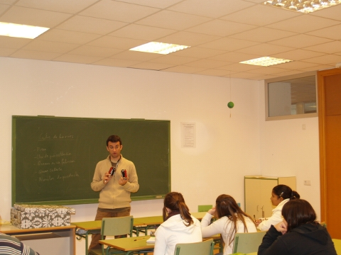 A teacher in the classroom